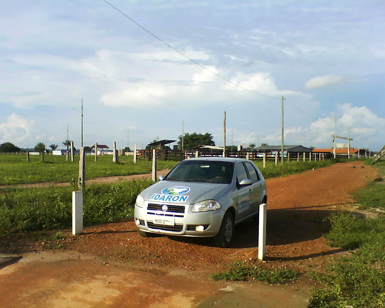 Car Inspection in Palio in the Exhibition